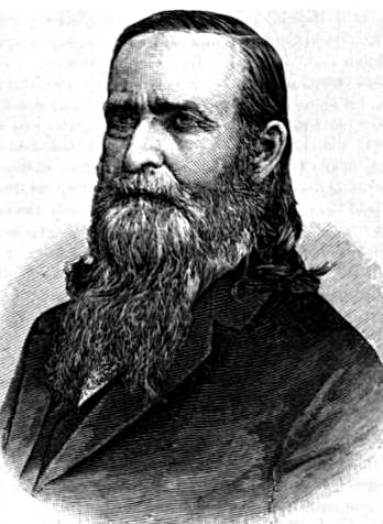 Ira Sherwin Hazeltine, US Representative from Missouri